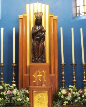 Statue carved from a dark fruitwood in the Catholic church Our Lady of Hal in Camden Town. This is a copy of the original in Halle in Belgium